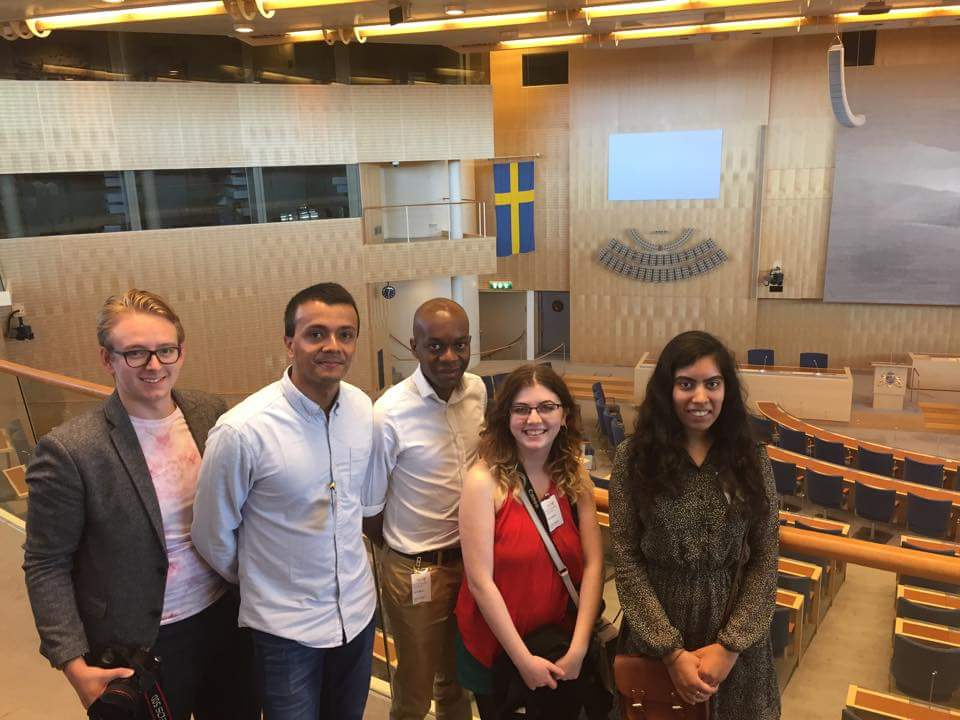 Young Fabian International Network Delegates at the Swedish Parliament Martin Edobor, Rachel Ward, Unsa, Ian Kugler, Rayhan Haque